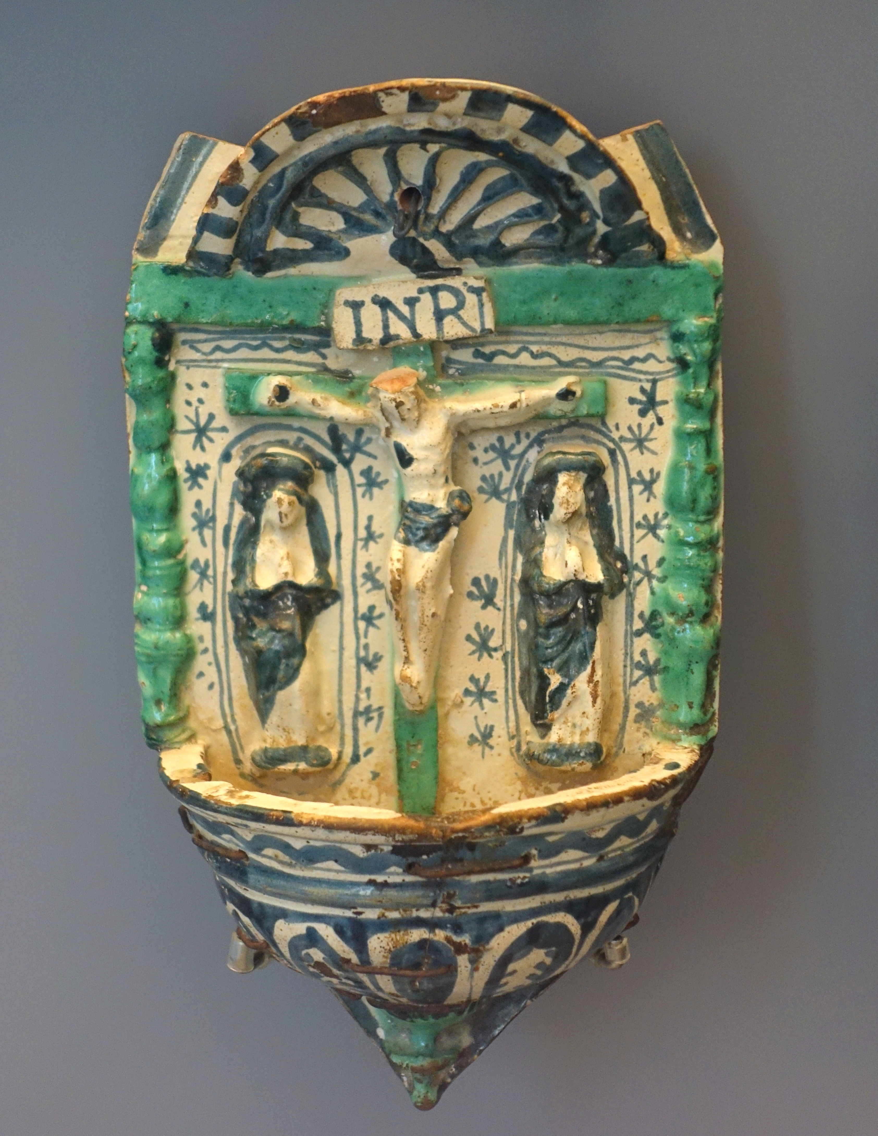 Exhibit in the Museo Nacional de Artes Decorativas, Madrid, Spain. This work is in the public domain because the artist died more than 100 years ago.